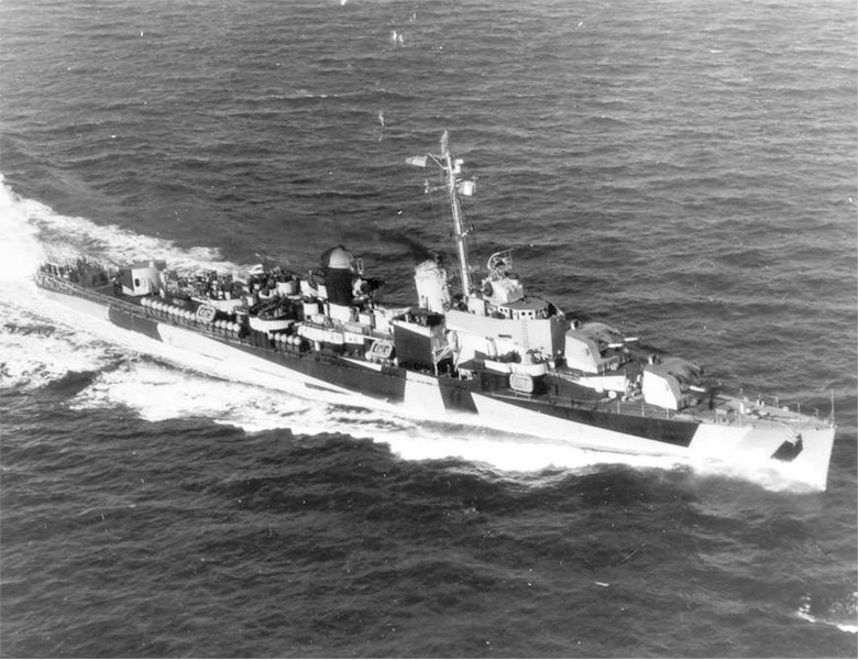 The U.S. Navy destroyer minelayer USS J. William Ditter (DM-31) underway off Norfolk, Virginia (USA), in January 1945. The ship is painted in Camouflage Measure 32, Design 3D. Note the mines carried.